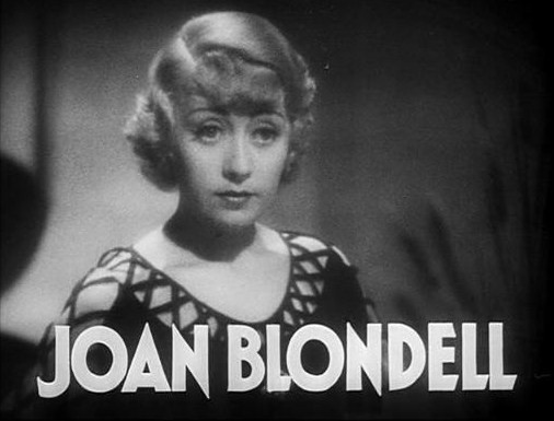 Frame from public domain trailer for Warner Bros. 1933 film Footlight Parade showing Joan Blondell and her name in type